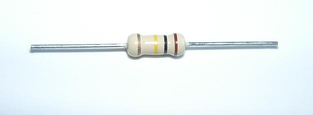 Color coded carbon resistor, 100 kΩ, 5%